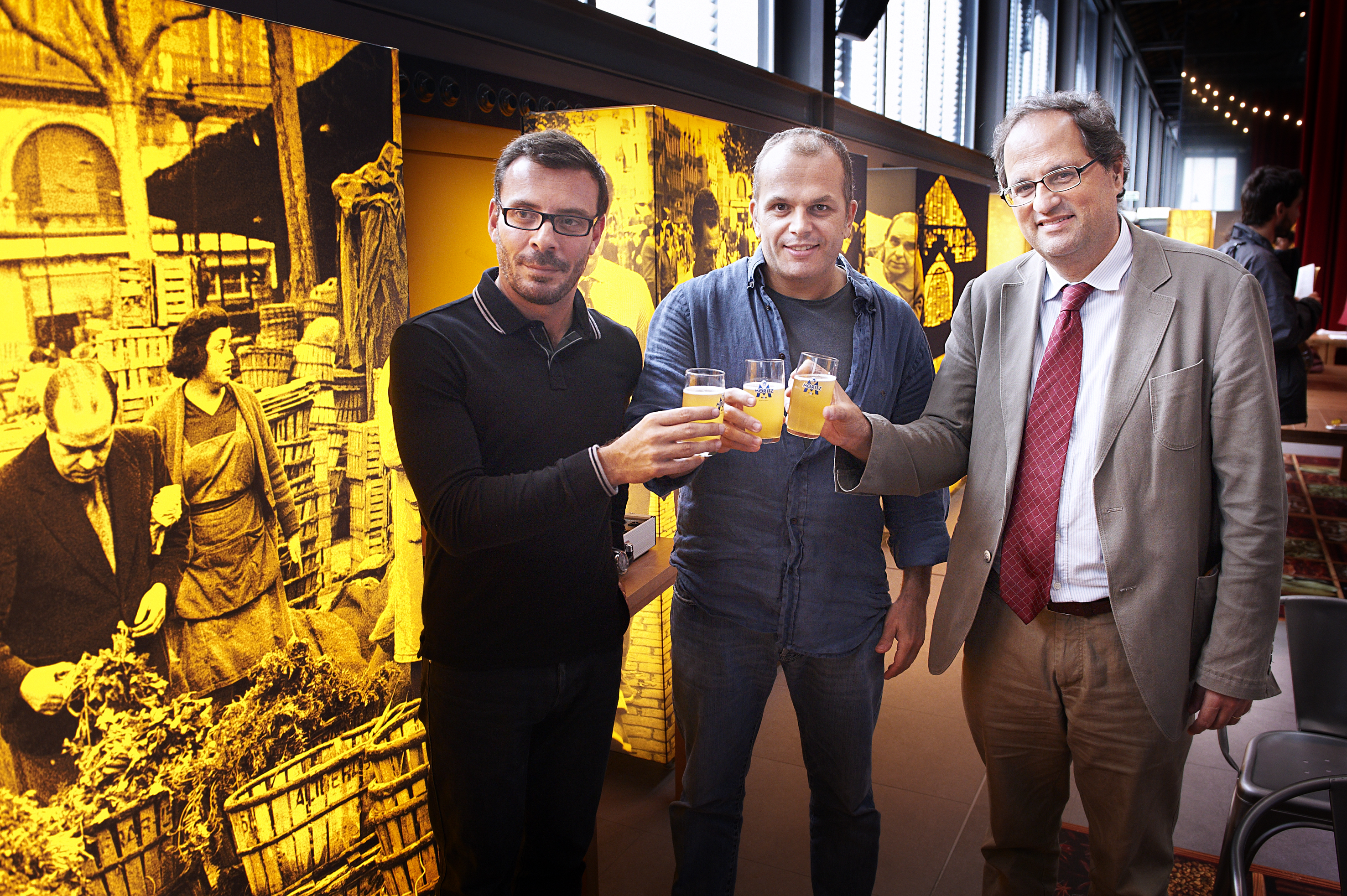 Albert Castellón, director general de Moritz; Jordi Vilà, director gastronòmic de Moritz i Quim Torra, director d'El Born Centre Cultural